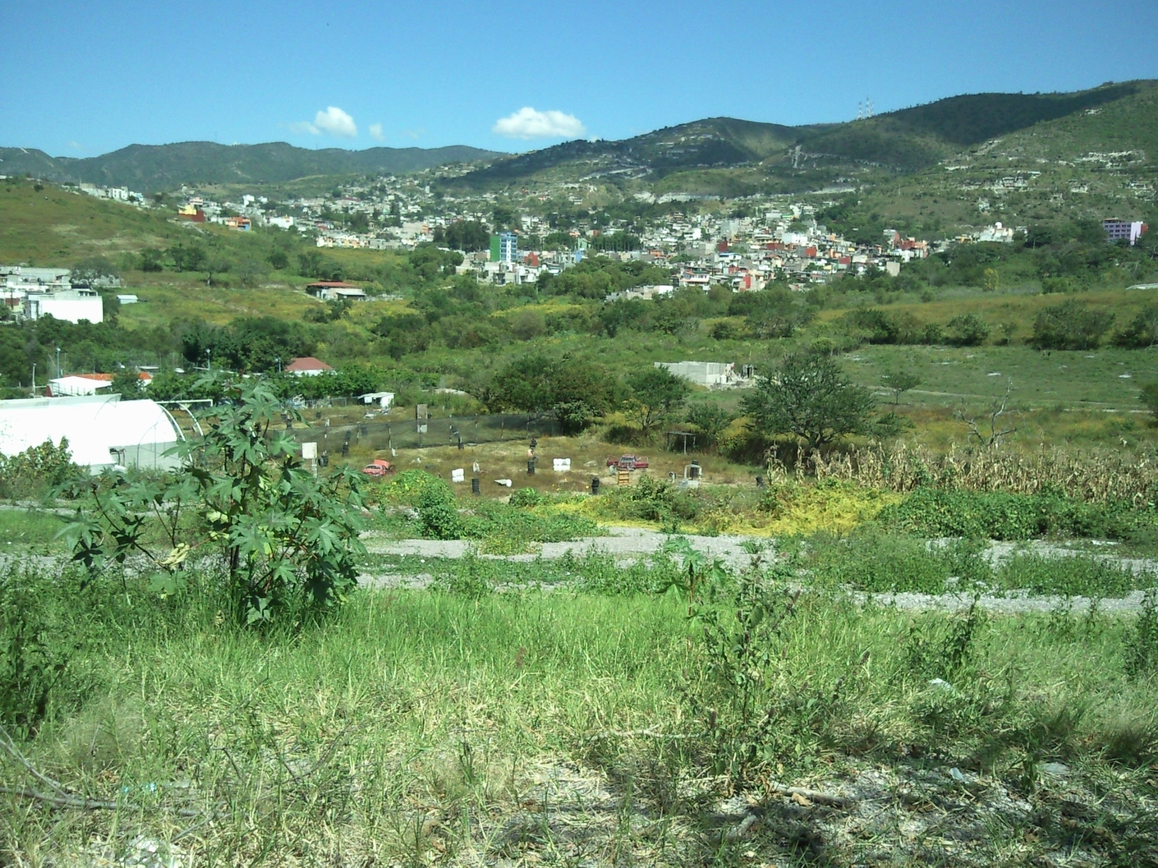 Vista de la ciudad de Chilpancingo Guerrero, México.